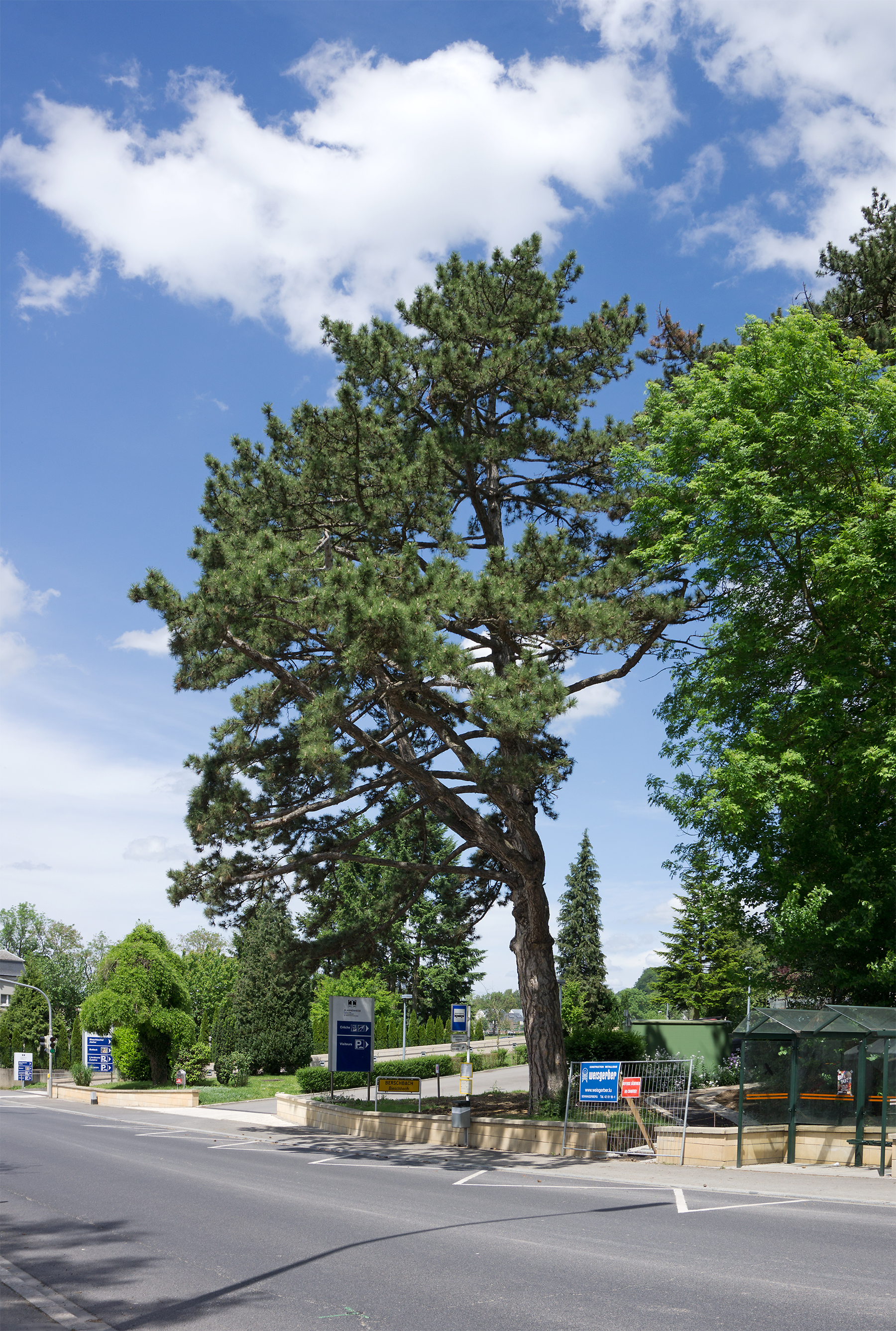 Pine tree (Pinus nigra) in Berschbach, 47 rue de Luxembourg, commune of Mersch, Luxembourg. The tree was removed in 2015.